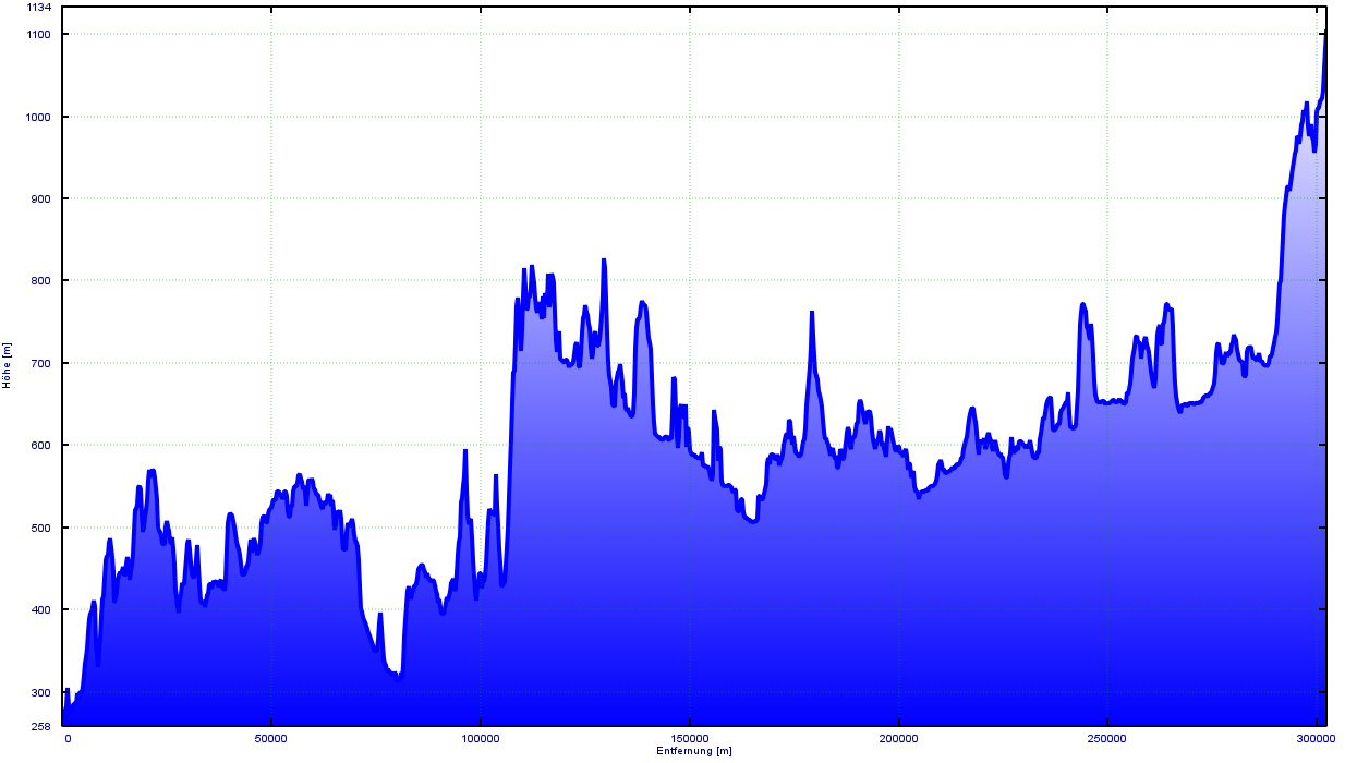 elevation profile of the "Schwarzwald-Schwäbische Alb-Allgäu-Weg"